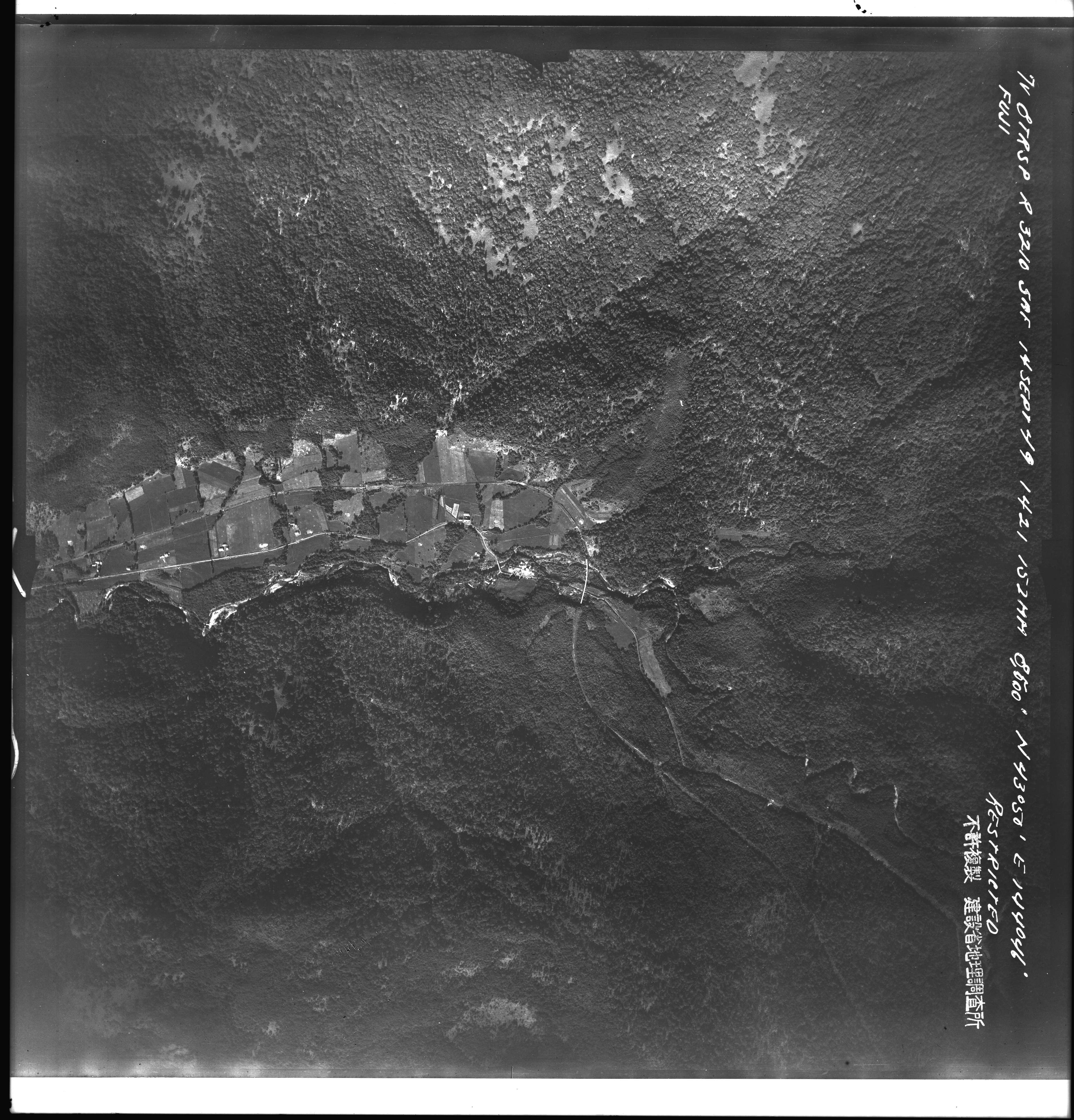 Distributed by Geospatial Information Authority of Japan. Photo by US military. Koshikawa Bridge, Konboku Line (Japanese National Railways). Syari Town, Hokkaido, Japan.